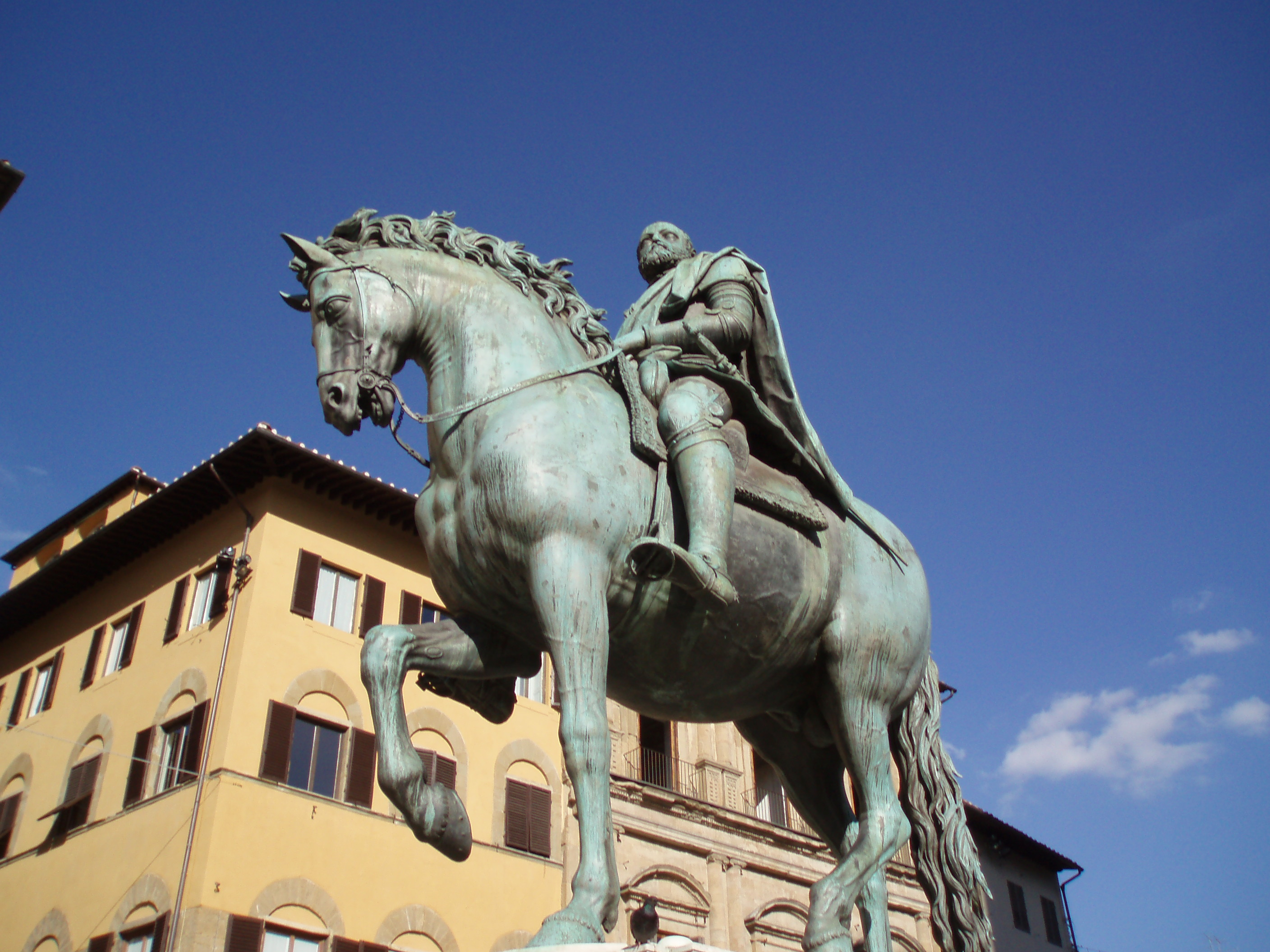 Cosimo Medici's statue on the Piazza della Signoria by Giambologna in Florence, Italy.